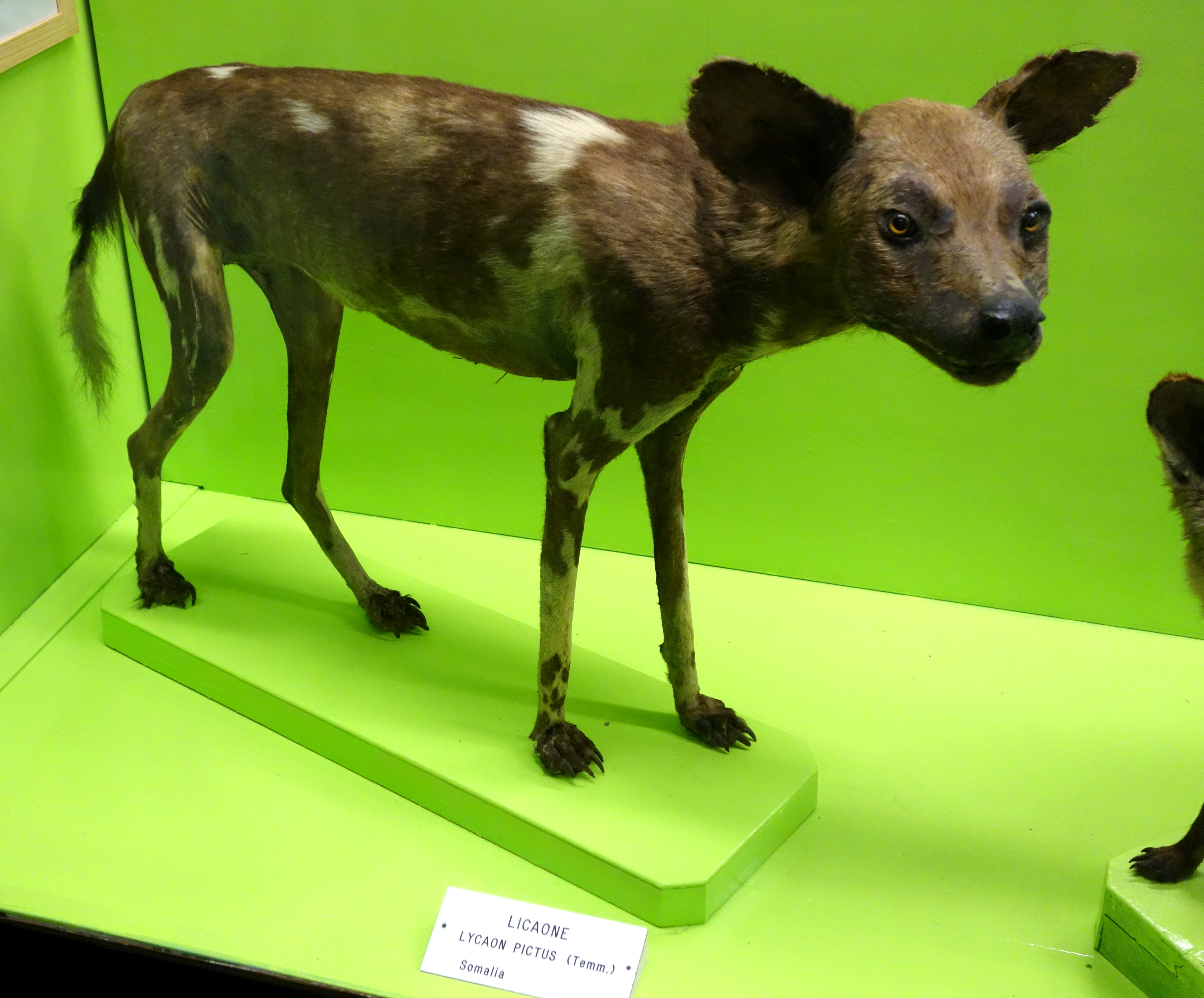 Exhibit in the Museo Civico di Storia Naturale di Genova, Via Brigata Liguria, 9, 16121, Genoa, Italy.